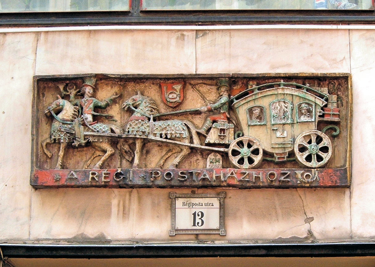 Ceramics by Margit Kovács on the Régiposta street building by Lajos Kozma, Budapest. 1930ies.